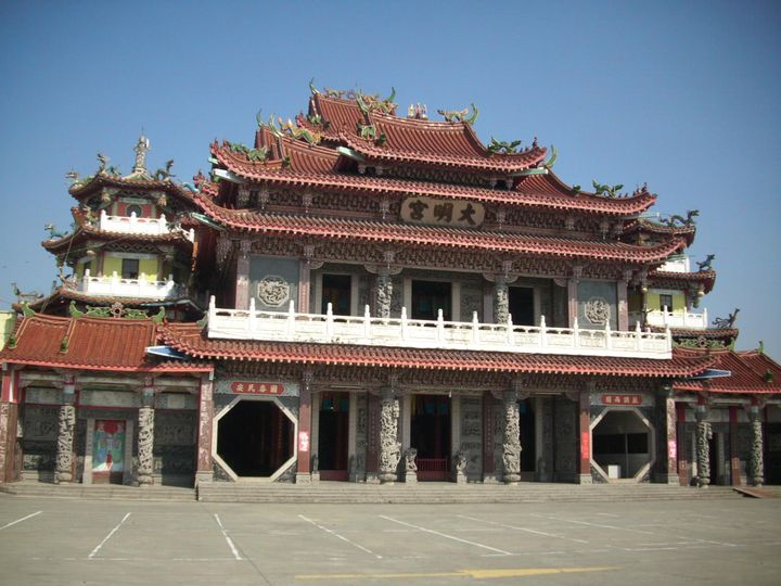 Position in Taizhong god post area abundant continent Ming Dynasty palace.